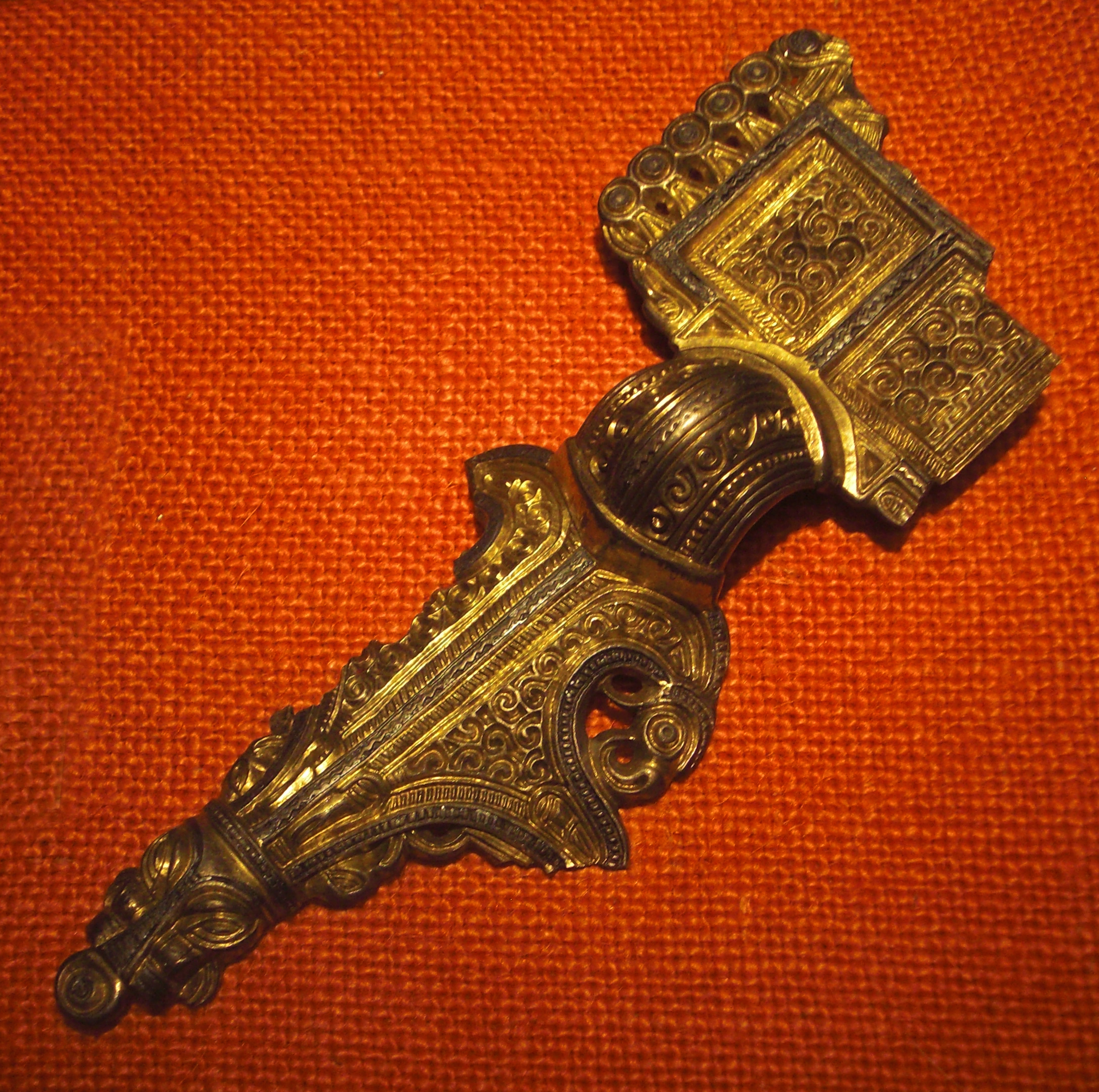 Migration period fibula (2M16-F1958) found at a destroyed burial ground (RAÄ No Trävattna 31:1) in Vadsbo, Trävattna Parish, Vilske Hundred, Falköping Municipality, former Skaraborg County, Province of Västergötland, Sweden.